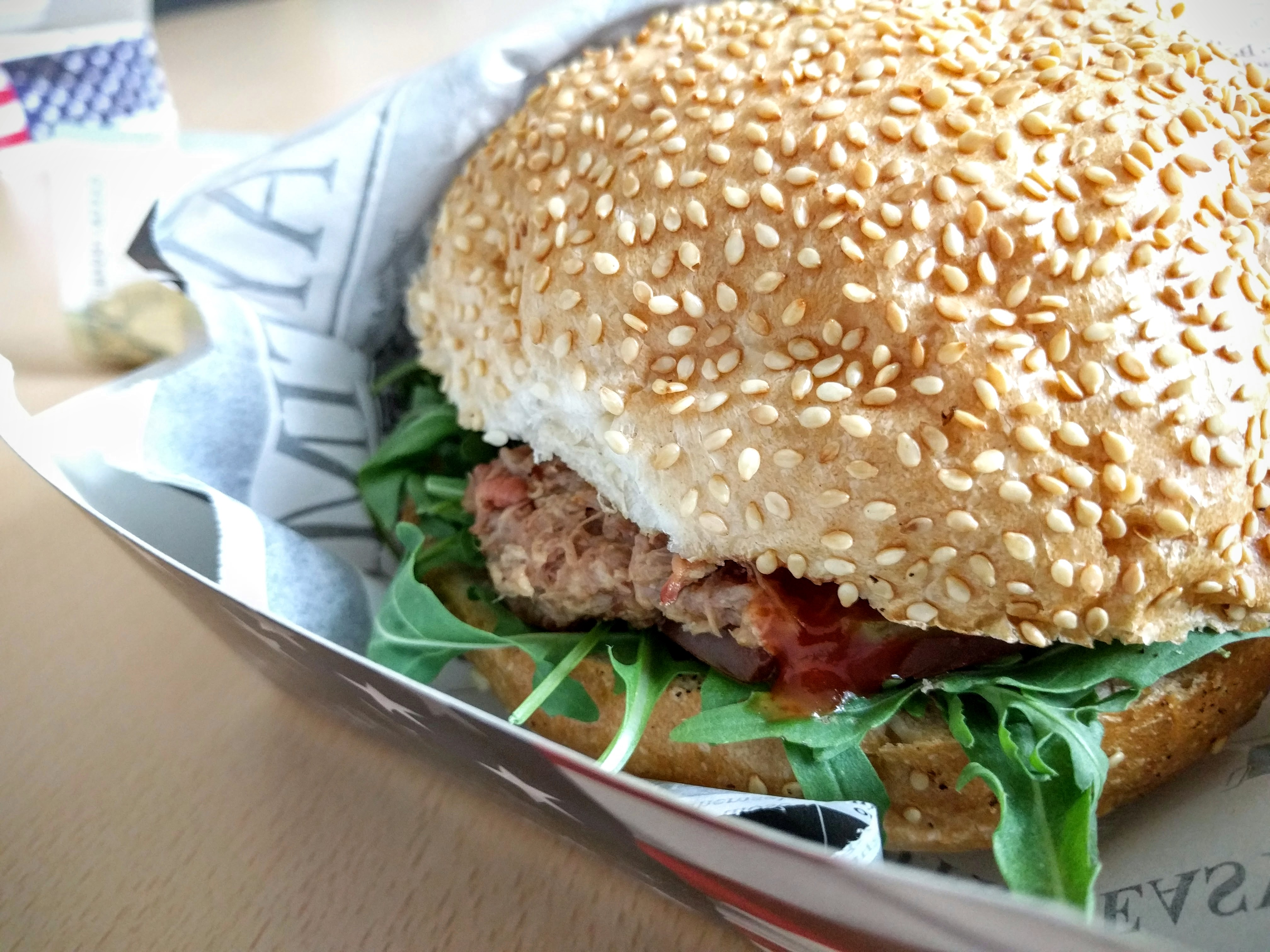 A burger bun filled with pulled pork